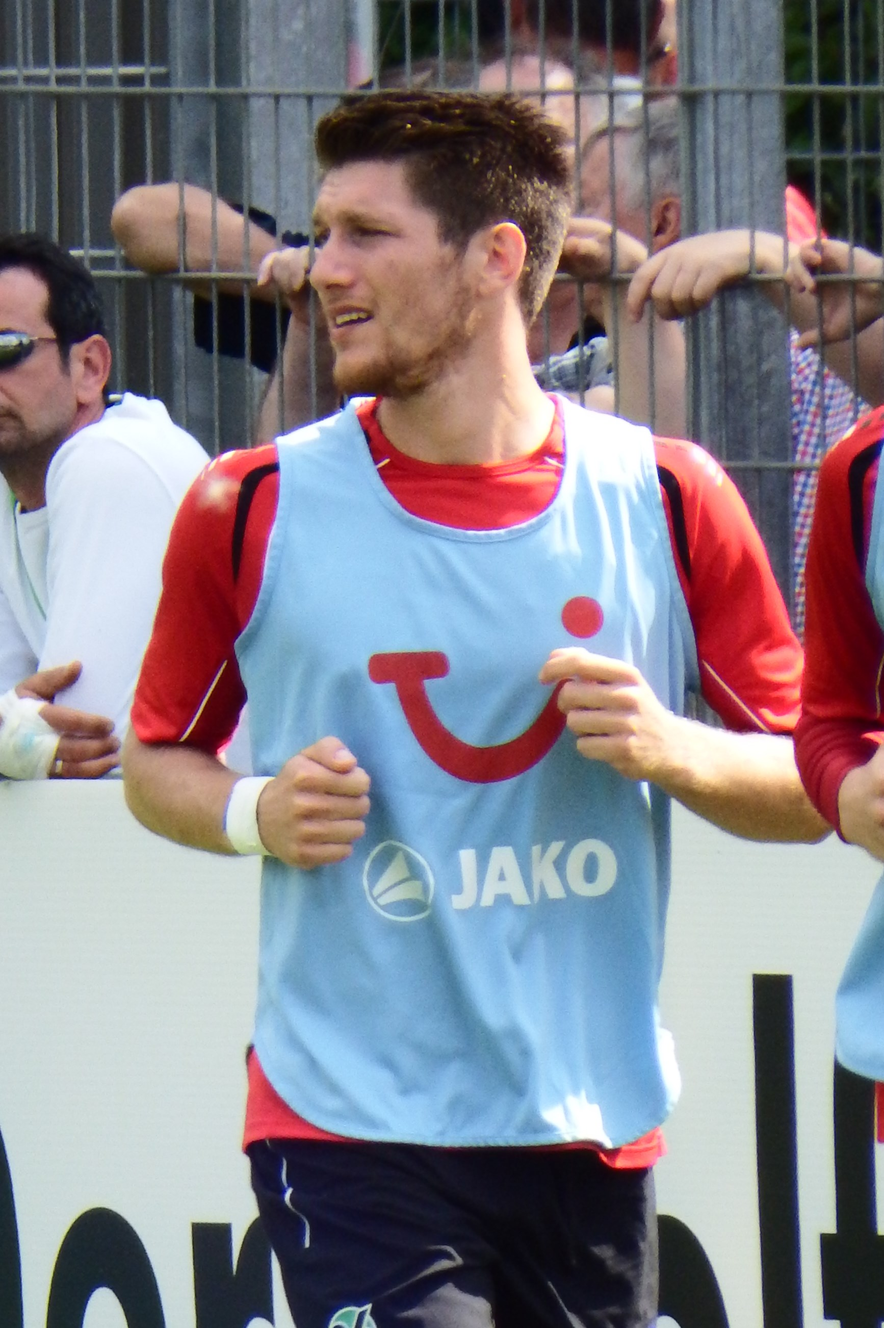 Sébastien Pocognoli as Player of Hannover 96